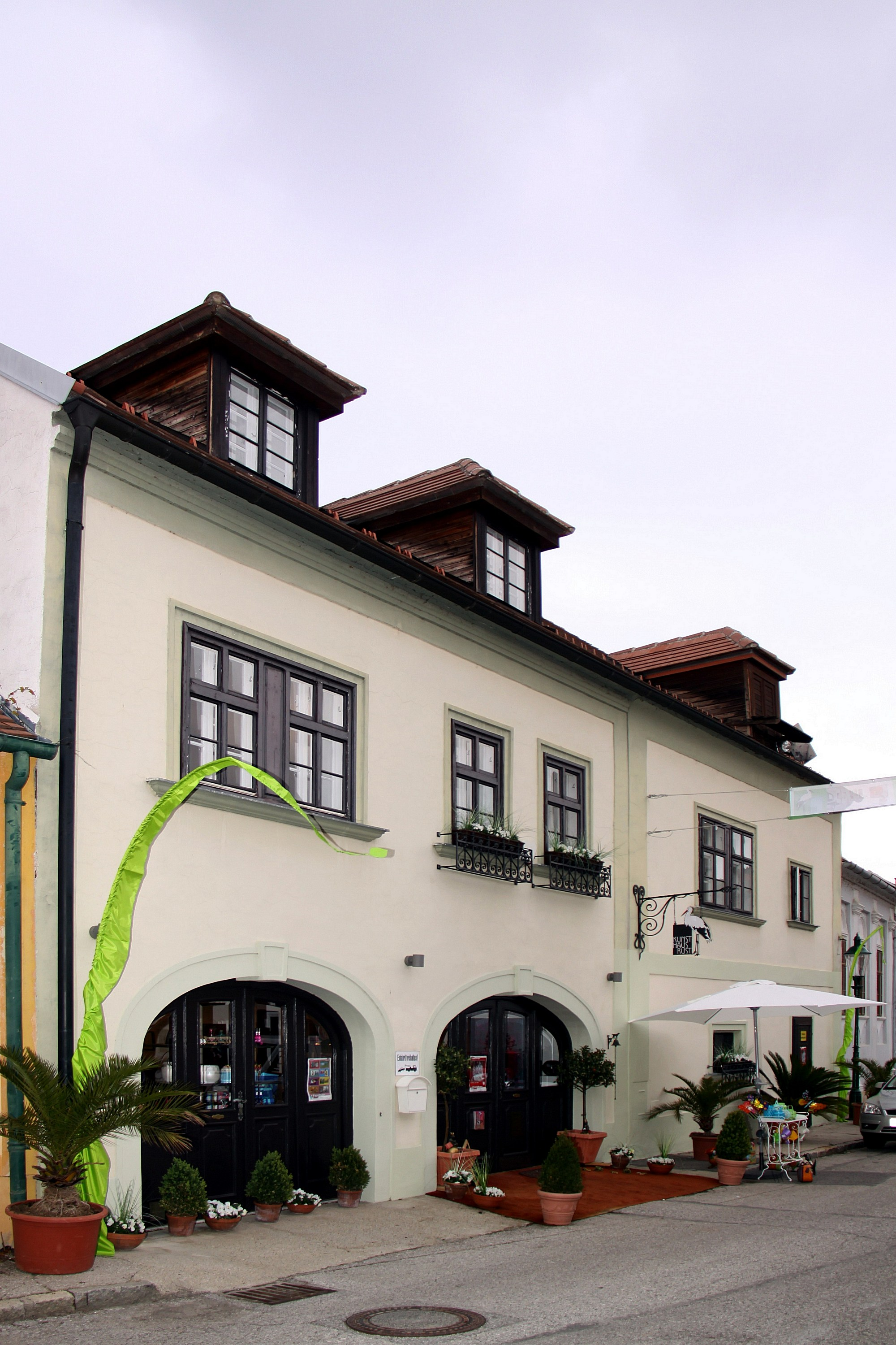 Buergerhaus, Kirchengasse 9 in Rust in Burgenland (Austria) Object location47° 48′ 03.19″ N, 16° 40′ 31.65″ E